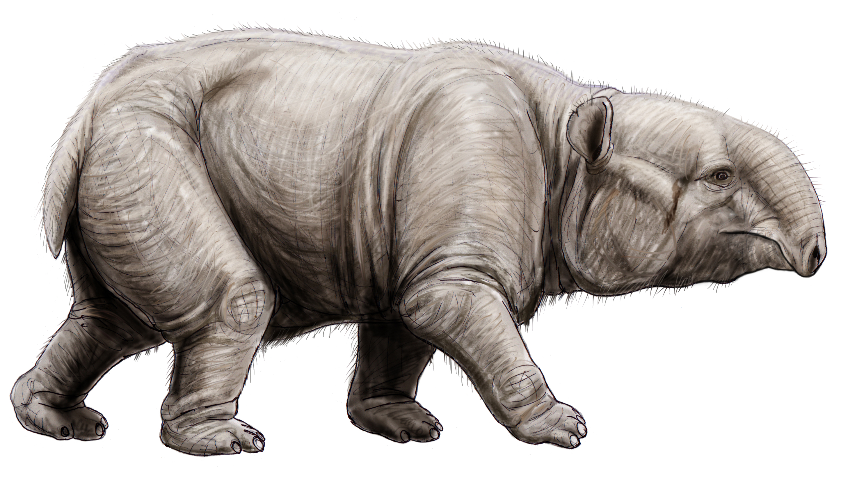 Barytherium grave, speculative reconstruction without proboscis